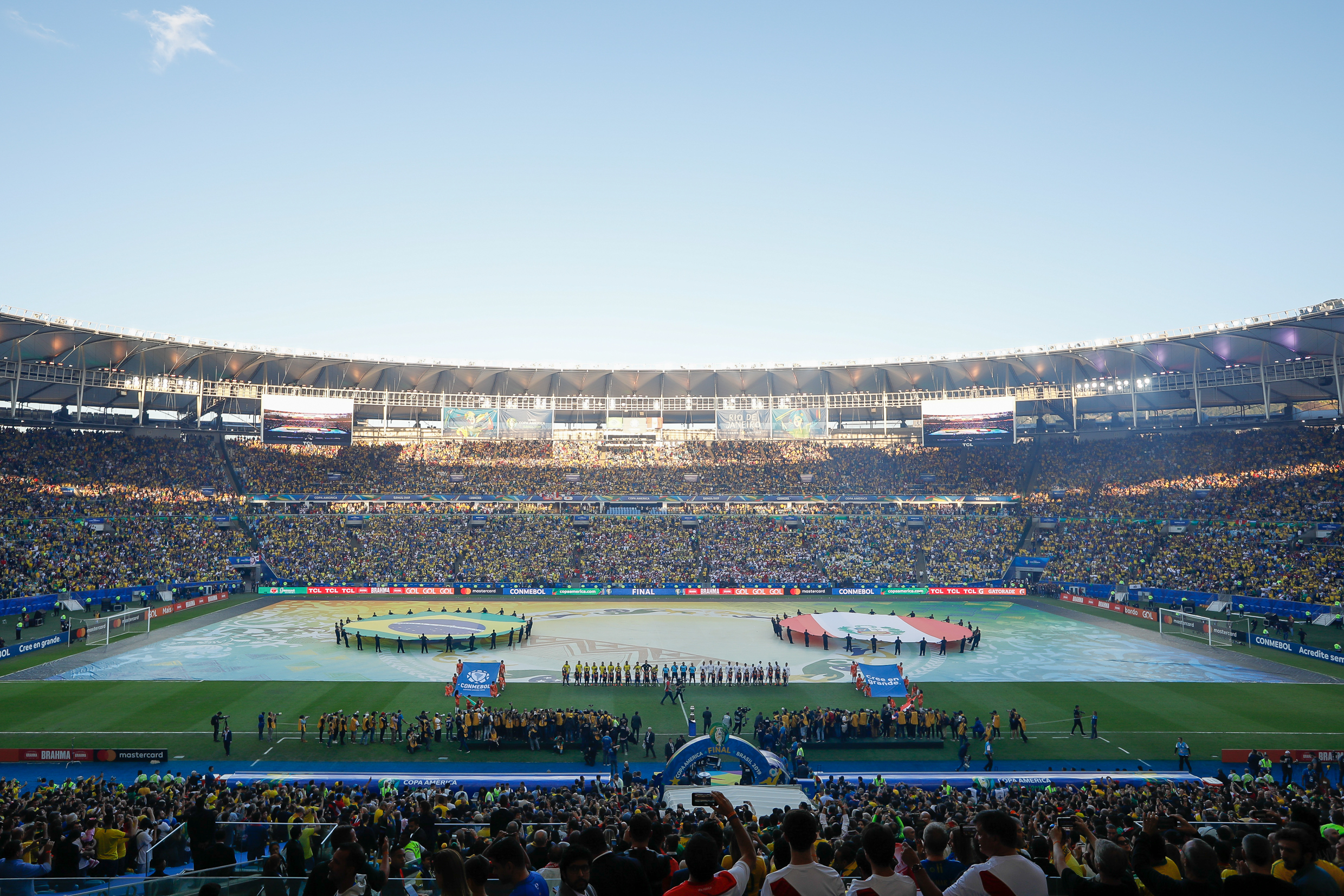 (Rio de Janeiro - RJ, 07/07/2019) Presidente da República, Jair Bolsonaro, durante a final da Copa América 2019, entre as seleções do Brasil e Peru. Foto: Carolina Antunes/PR